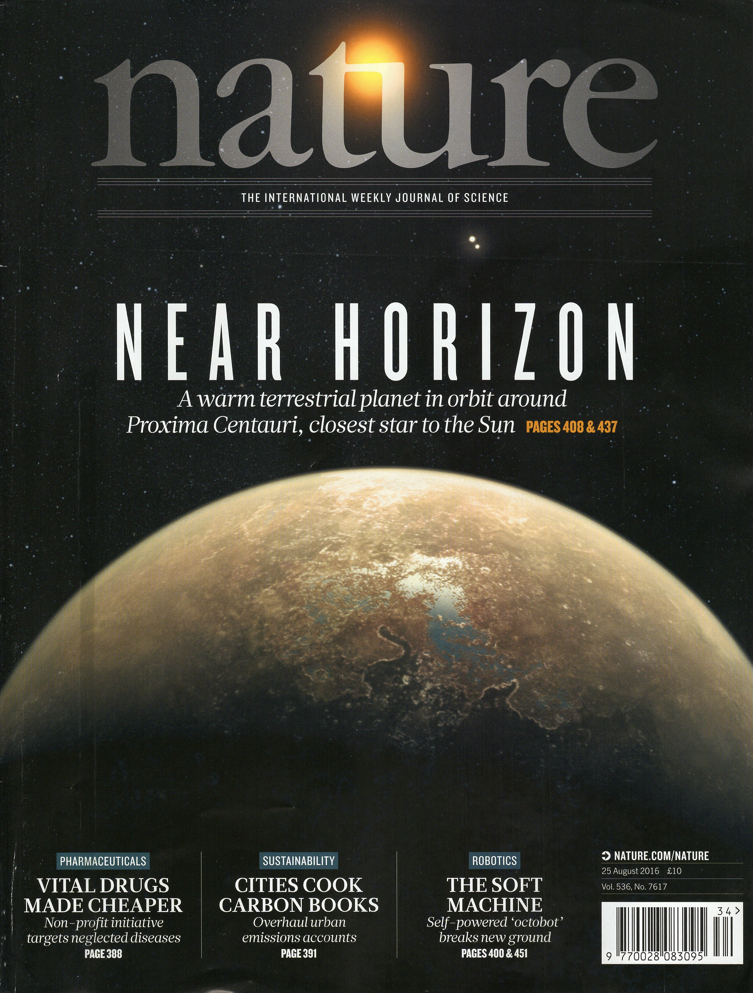 Cover page of Nature volume 536 number 7617 (the issue which contains the original paper announcing the discovery of Proxima Centauri b), using an artist’s impression of Proxima Centauri b shown hypothetically as an arid rocky super-earth which originally was published by ESO